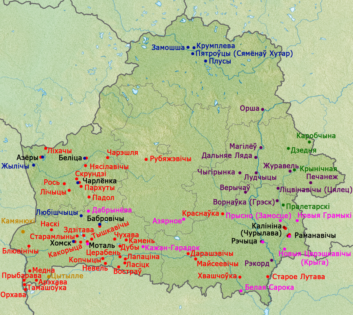 Mesolithic archeological sites in Belarus (in Belarusian).